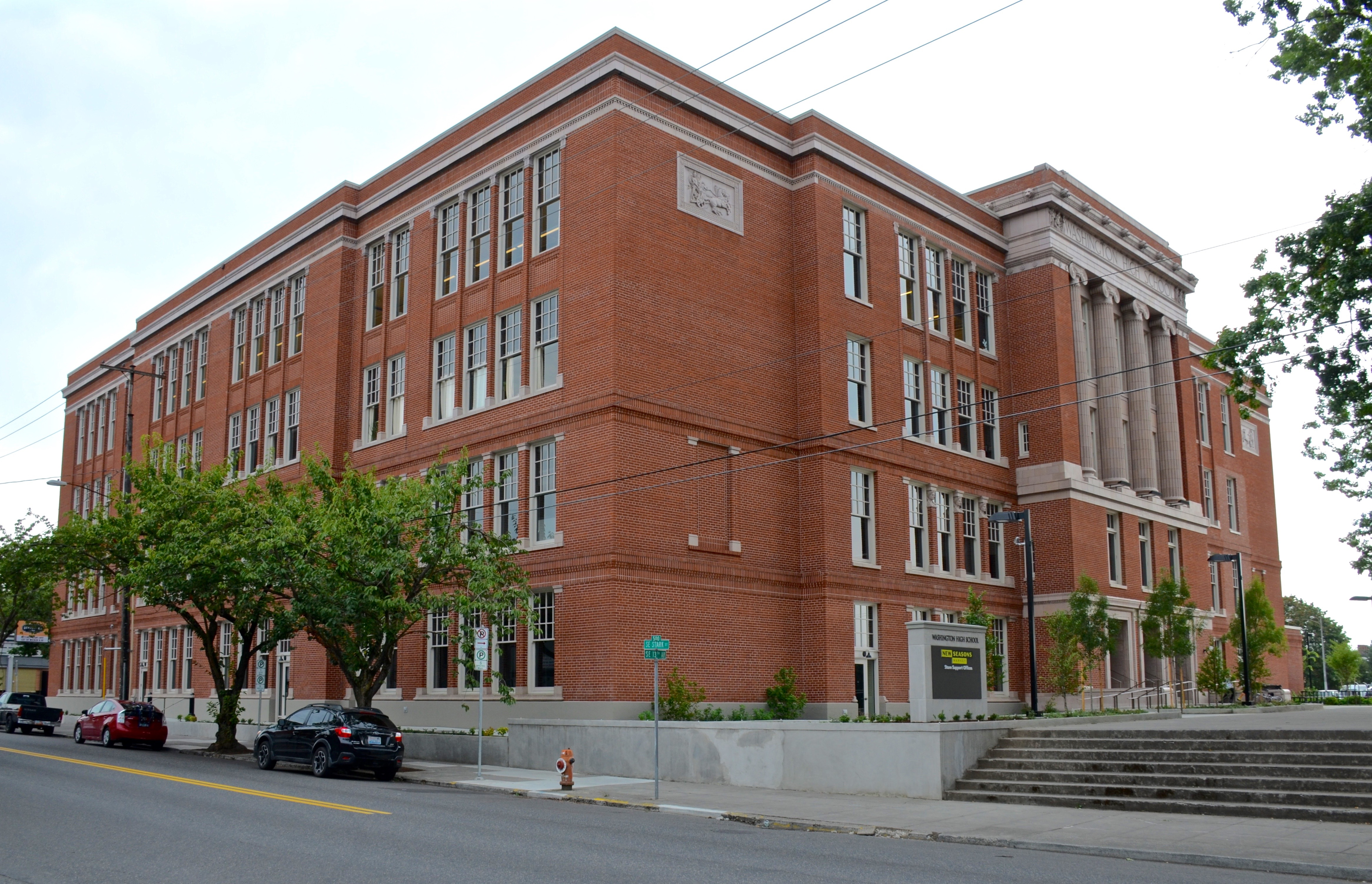 The former Washington High School, in Portland, Oregon, after its 2014-15 renovation. This view from SE 13th & Stark shows the building's north side and its west side (front). The high school closed in 1981, and the building sat mostly unused and boarded-up from 2003 until 2014.